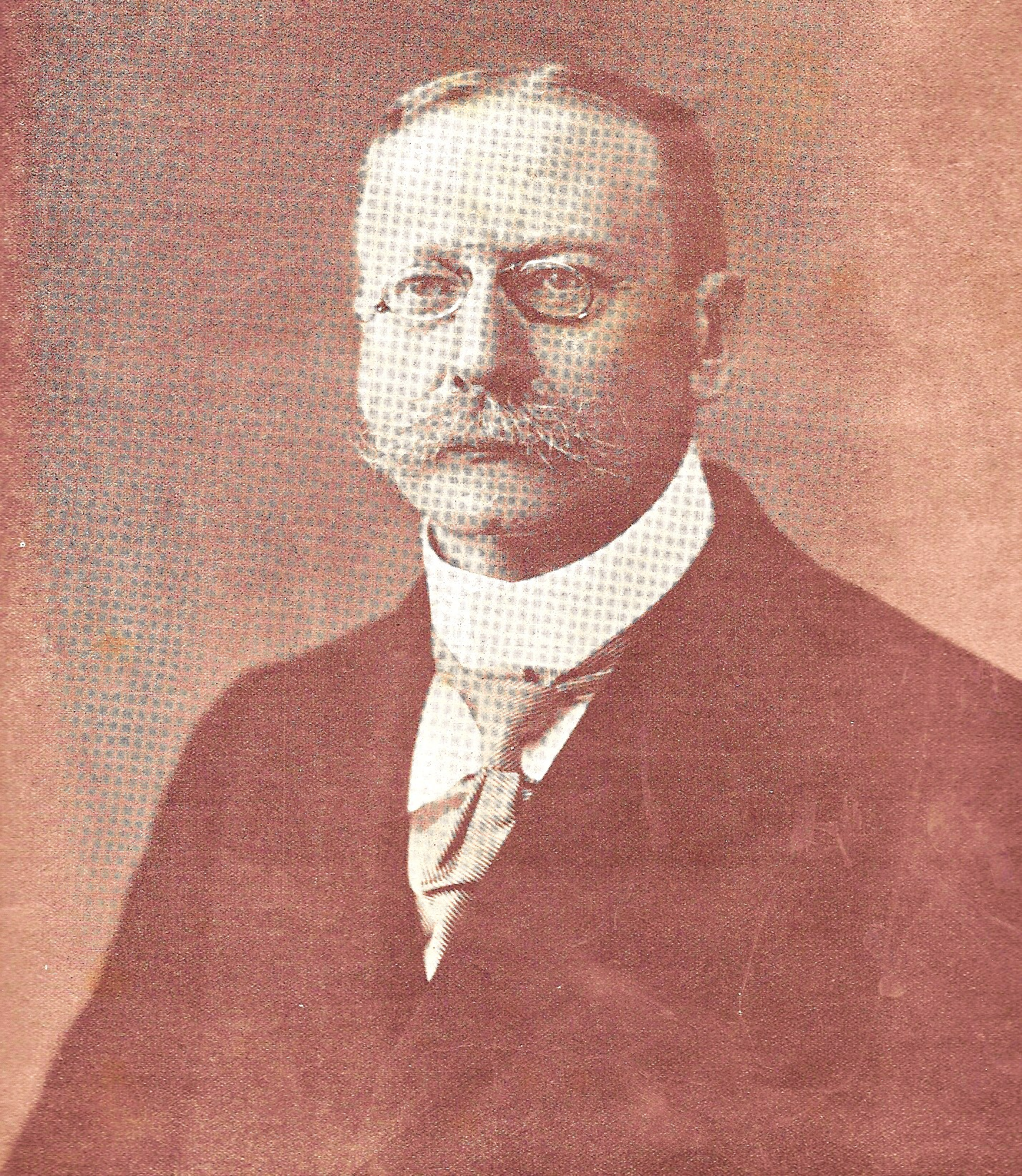 Jacobus van Wageningen